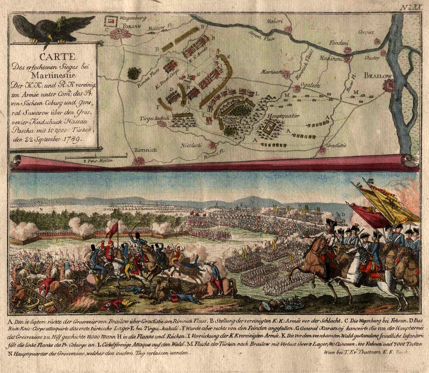 Batlle of Ramnic with map